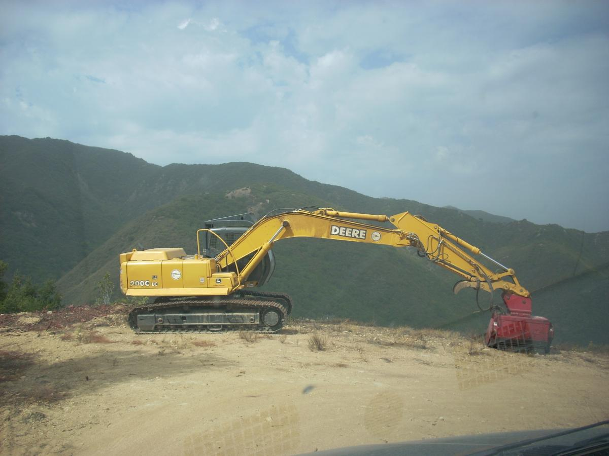 U.S. Forest Service (LPF Fire Information Unit) image of a masticator on the Zaca Fire.